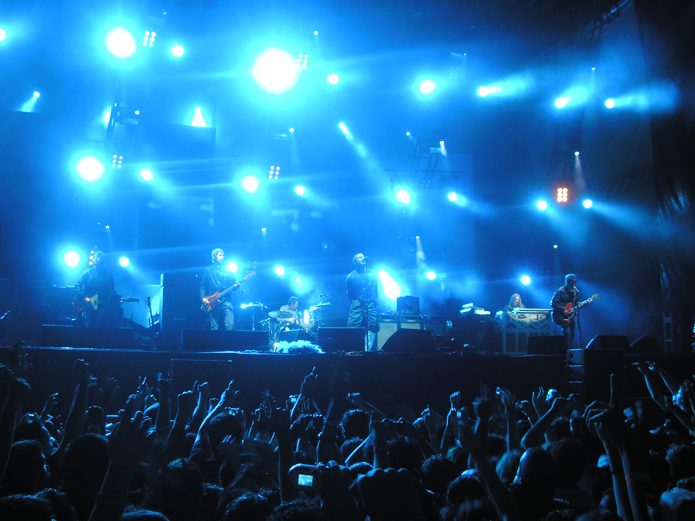 Last Oasis Gig in Sao Paulo, in Anhembi Arena